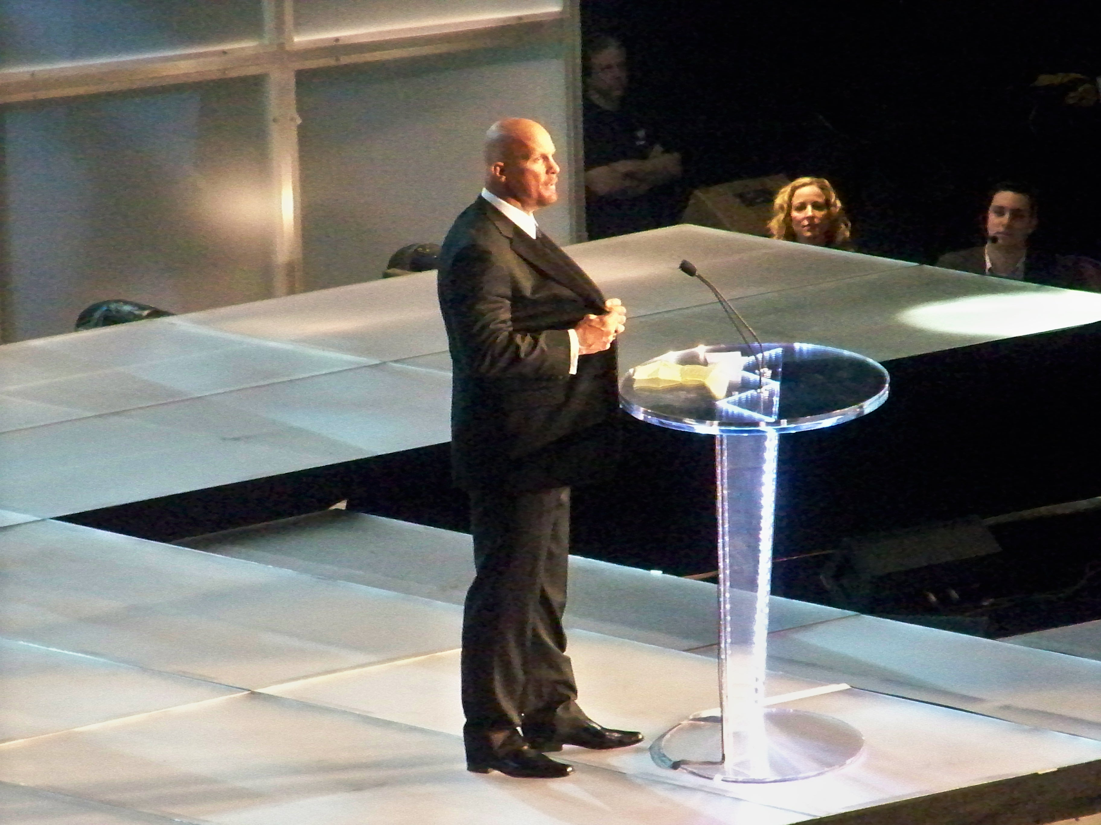 Austin being inducted into the WWE Hall of Fame.